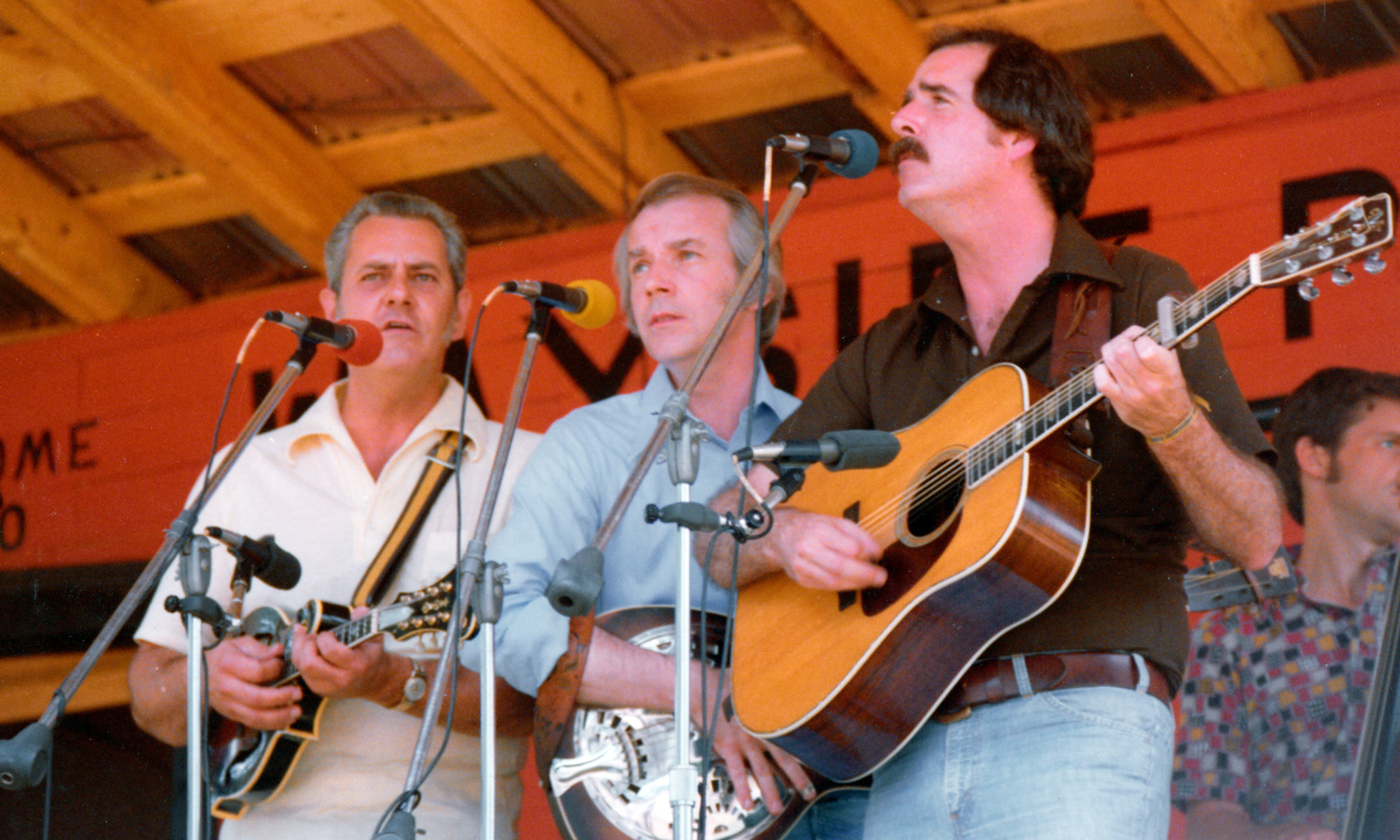 The Seldom Scene (John Duffey, Mike Auldridge, John Starling). June 1, 1977